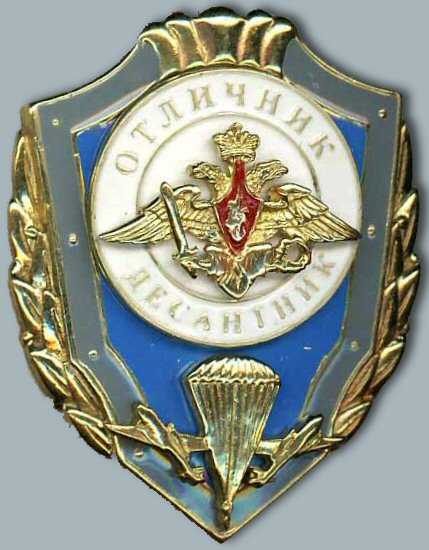 Russian Federation, award of the Defense Ministry. Badge for "Excellent Airborne Trooper".